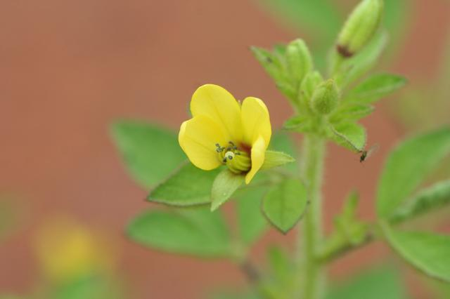 (en) Cleome viscosa, a photography originating of the internet site The accord of the autor, H. Brisse, is here. (fr) Cleome viscosa, une photographie issue du site internet L'accord de l'auteur, H. Brisse, se situe ici.